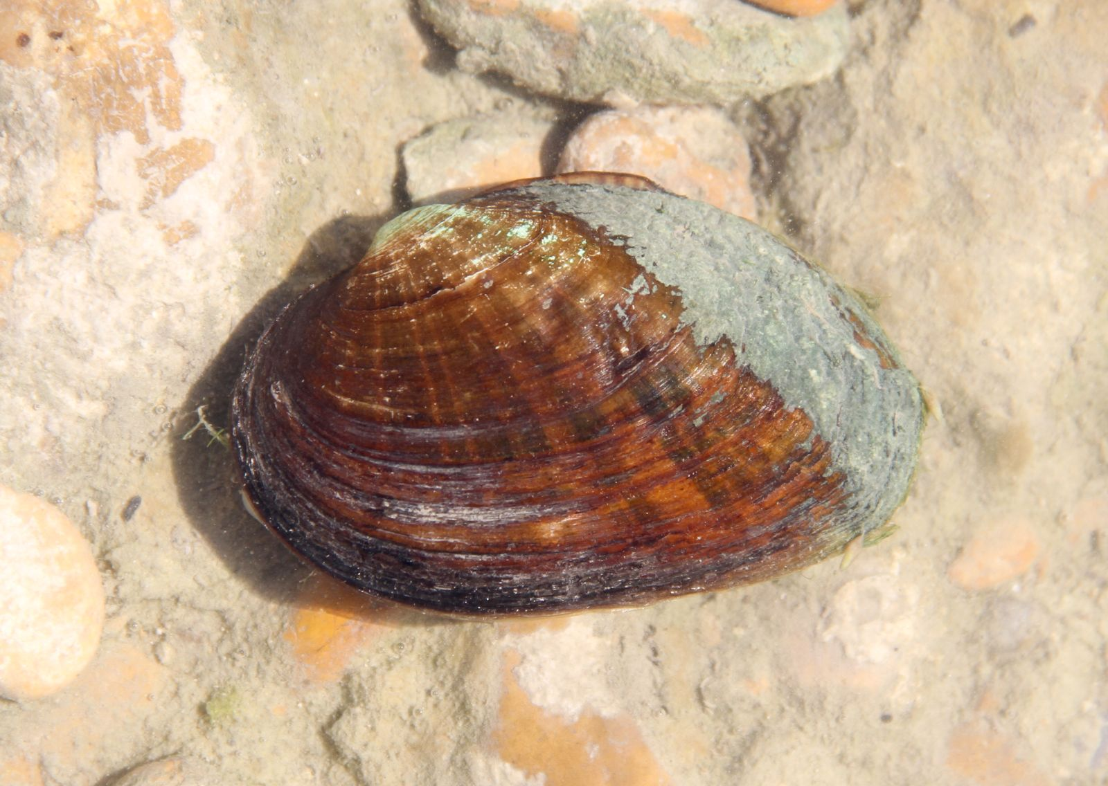 Fusconaia mitchelli (Posted to Flikr as Quadrula mitchelli)